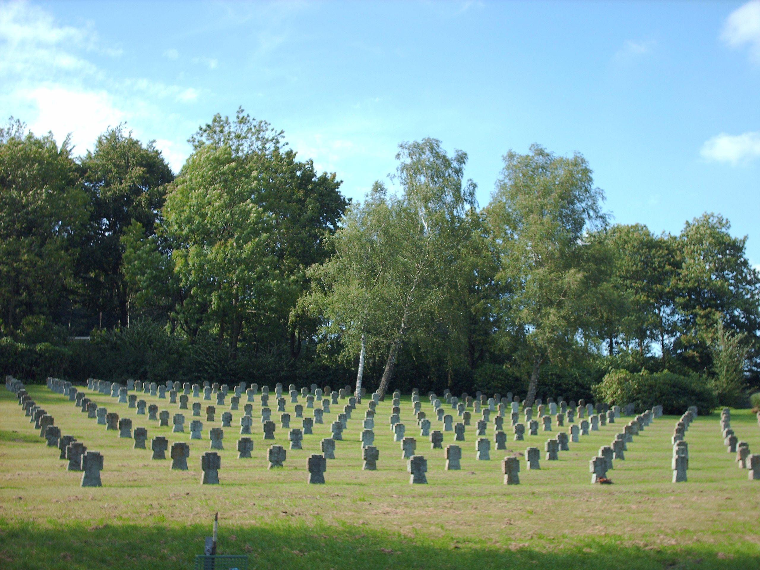 Military cemetery, Meschede, Germany check usage